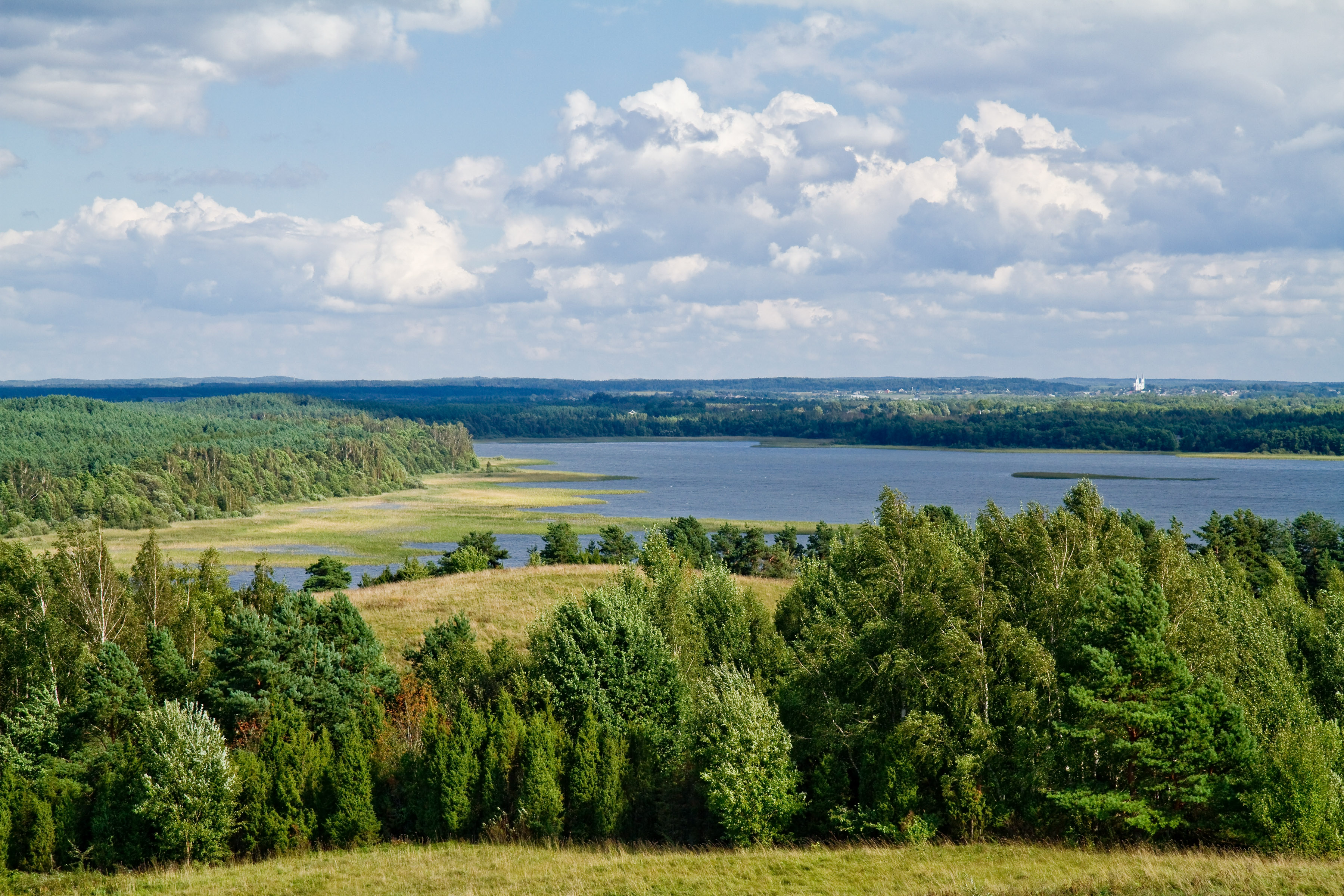 Strusta Lake. View from Majak hill. Brasłau district, Viciebsk province, Belarus.